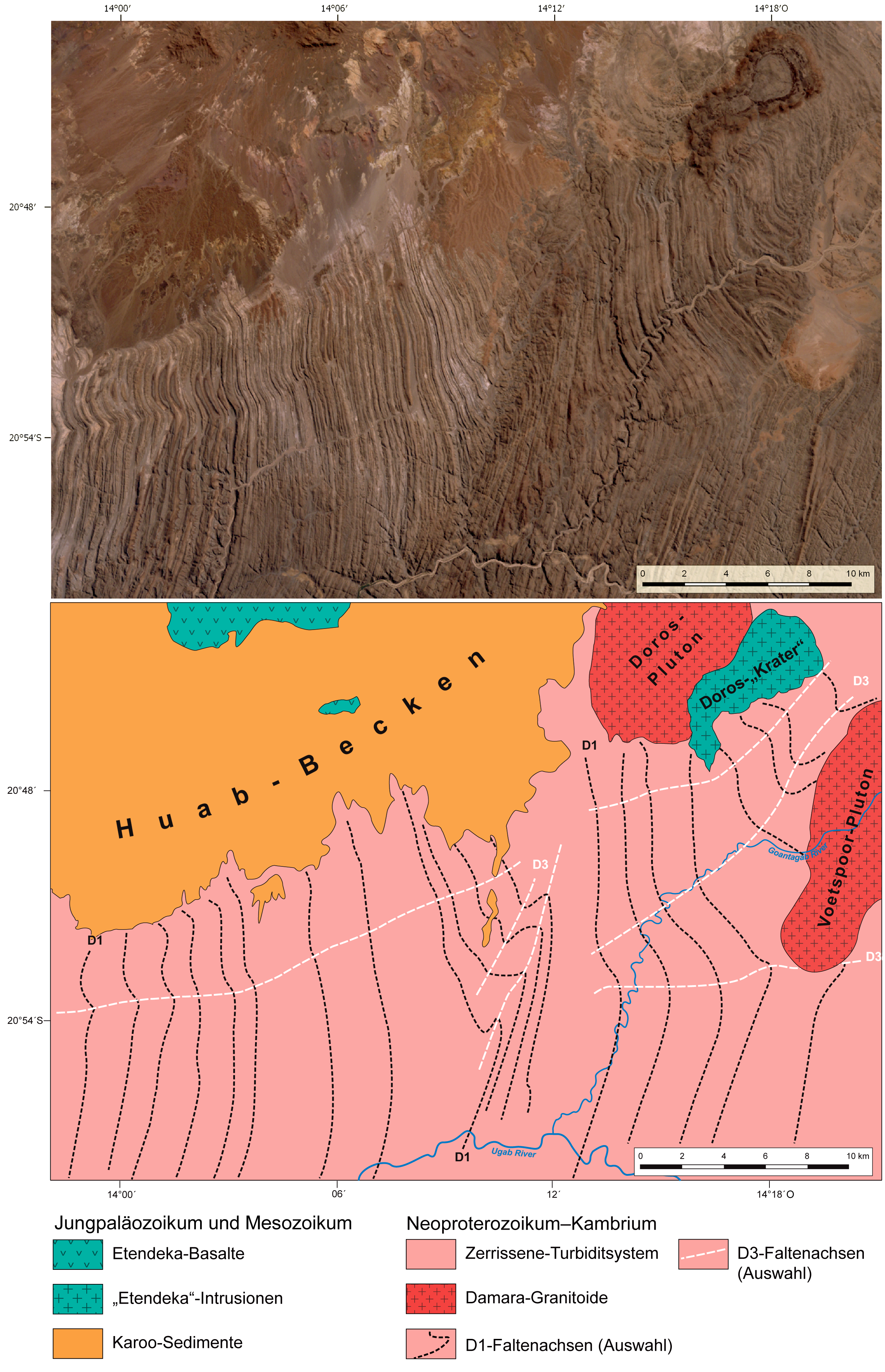 Satellite image (top) and geological map (bottom) of the Bushman fold train (the s-shaped structure with NNE-SSW-trending D3 fold axes in the center of both figures) in the northeastern part of the Lower Ugab Domain (Southern Kaoko Zone) and adjacent areas, central Namibia.